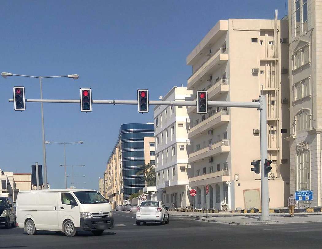 Fereej bin Durham district sign at the intersection of Al Mansoura Street and Al Orouba Street; at the border between Al Mansoura District and Fereej bin Durham District.